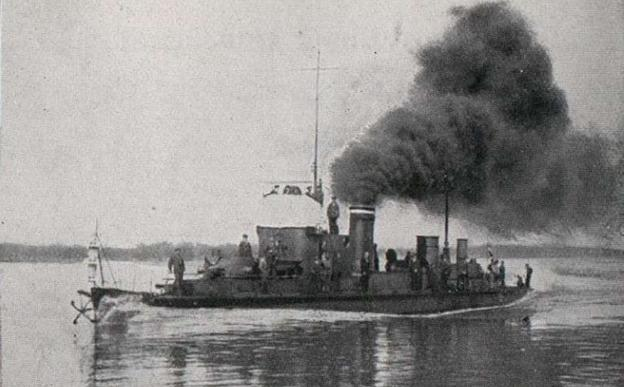 Hungarian river patrol boat Szeged (ex Austro-hungarian Wels)